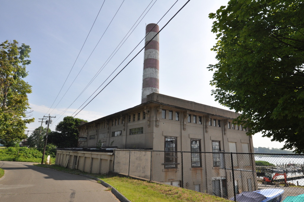 Shore Line Electric Railway Powerhouse, Old Saybrook, Connecticut.